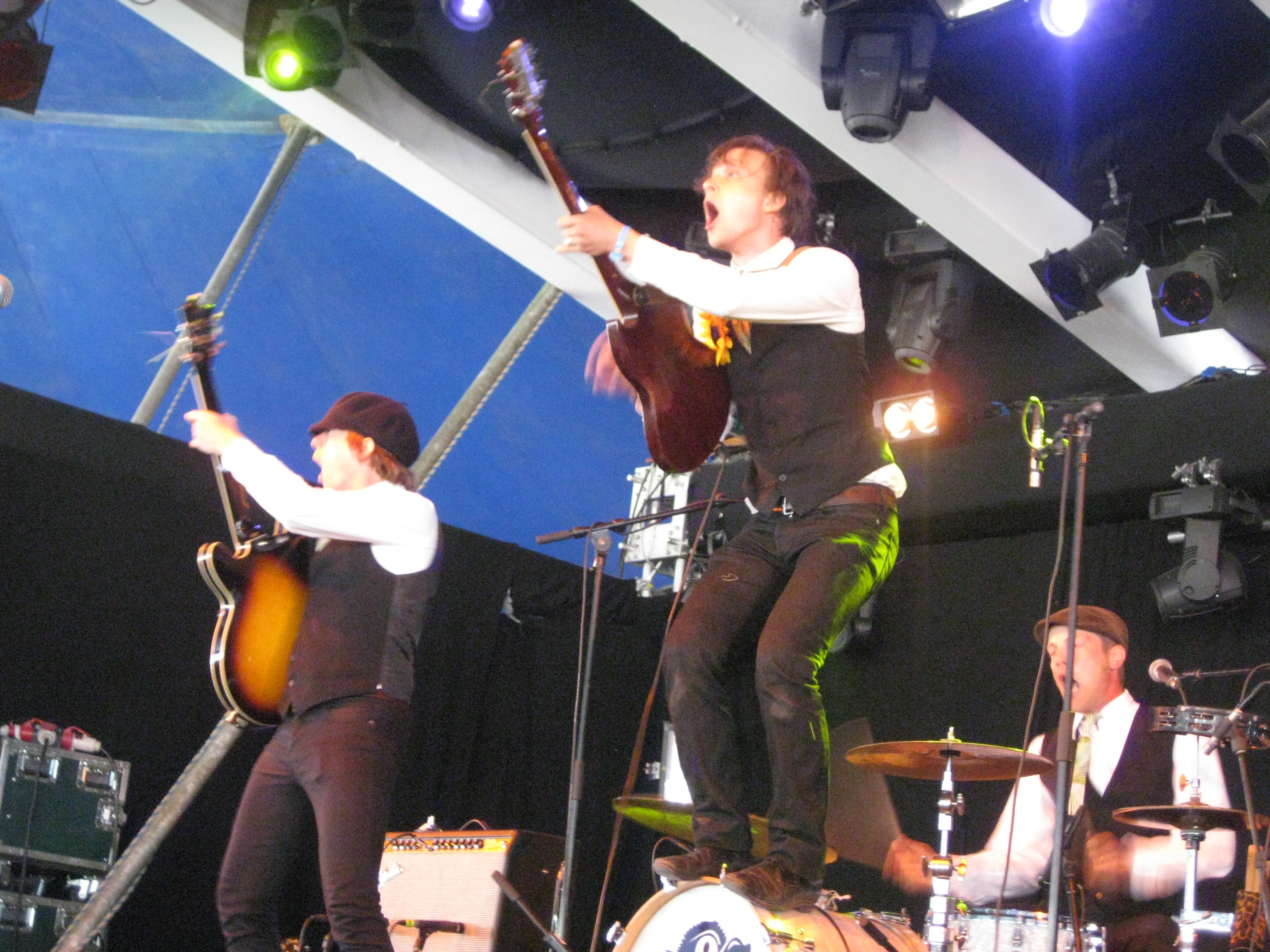 Babian Roskildefestivalen 2009